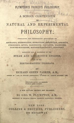 A school compendium of natural and experimental philosophy.